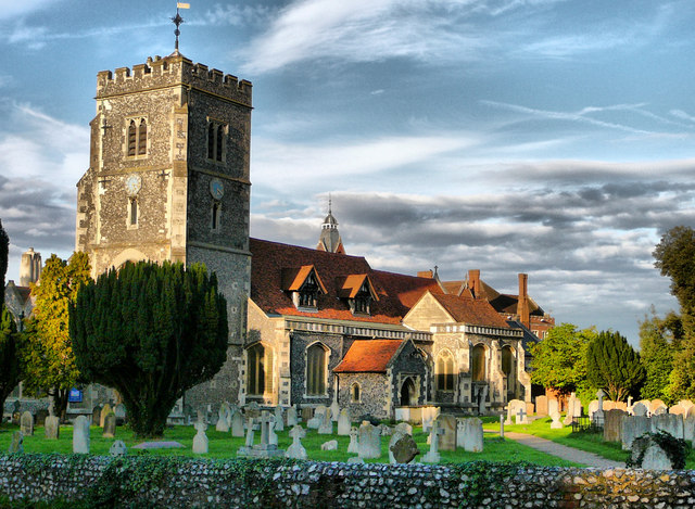 St Mary's Church, Beddington I have been up in the bell tower, not sure if i am allowed to add photos for that.